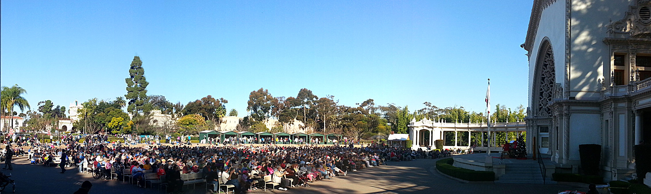 Sunday concert Panorama Spreckels Pavilion San Diego